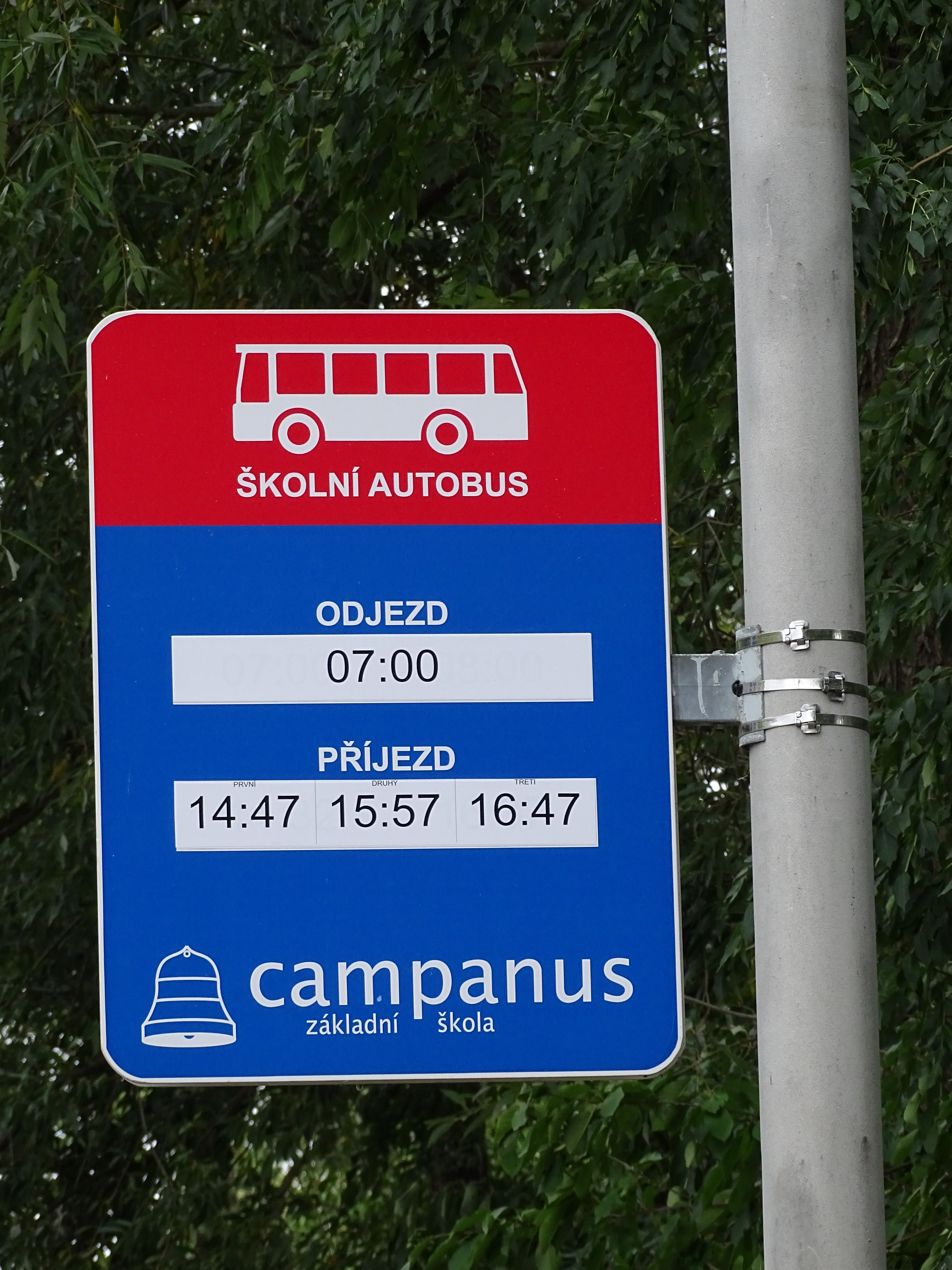 Vestec, Prague-West District, Central Bohemian Region, Czechia. Vestecká street.